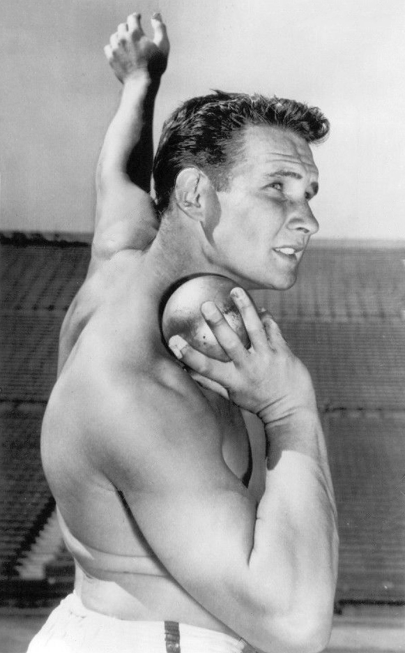 1954 USC Trojans & Olympic Shot Putter Parry OBrien Press Photo